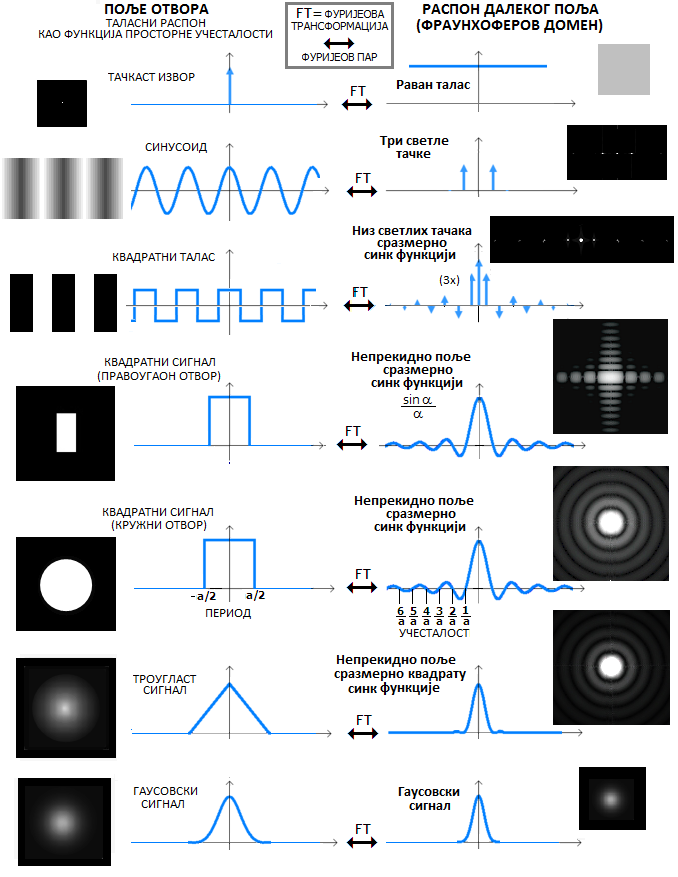 ТРАНСФОРМАЦИЈА РАСПОНА ПОЉА ОТВОРА У ДИФРАКЦИОНО ПОЉЕ У ФРАУНХОФЕРОВОМ ДОМЕНУ (ПРИМЕРИ)